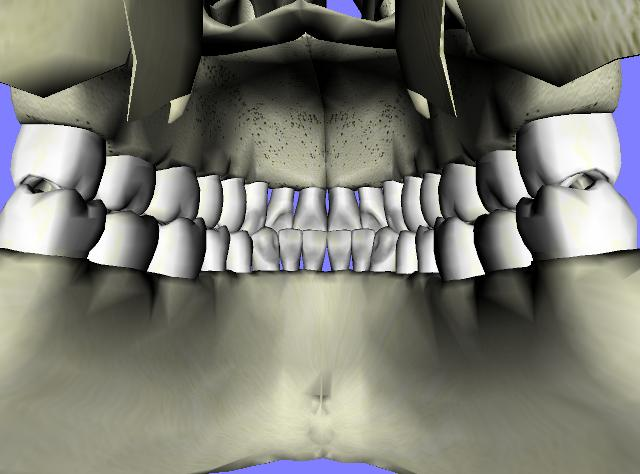 Posterior view of teeth taken from inside of mouth.